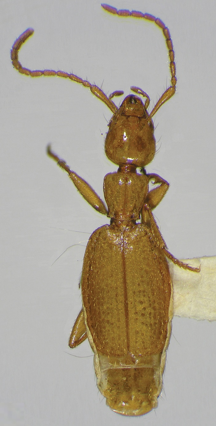 Habitus, dorsal aspect, of Coarazuphium whiteheadi.